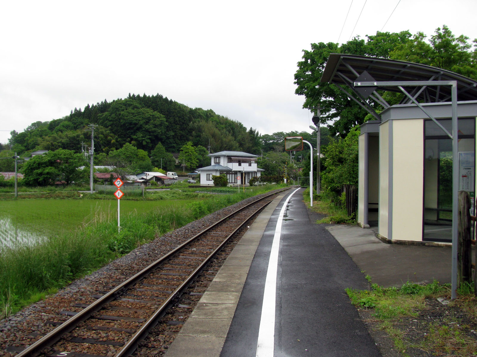 Satoshiraishi Station on Suigun Line